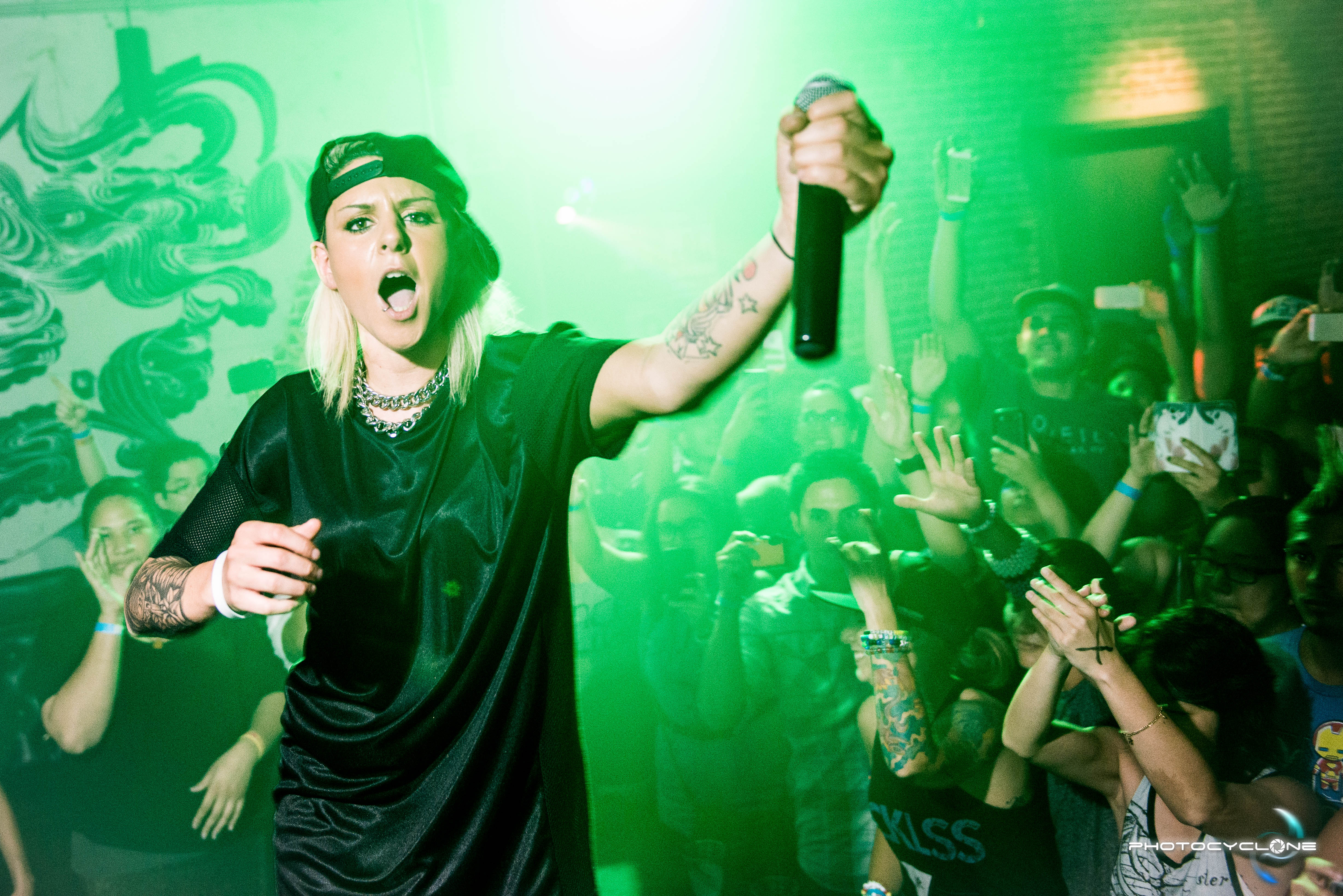 Christina Novelli performing at Nextdoor in Honolulu, Hawaii May 16, 2014